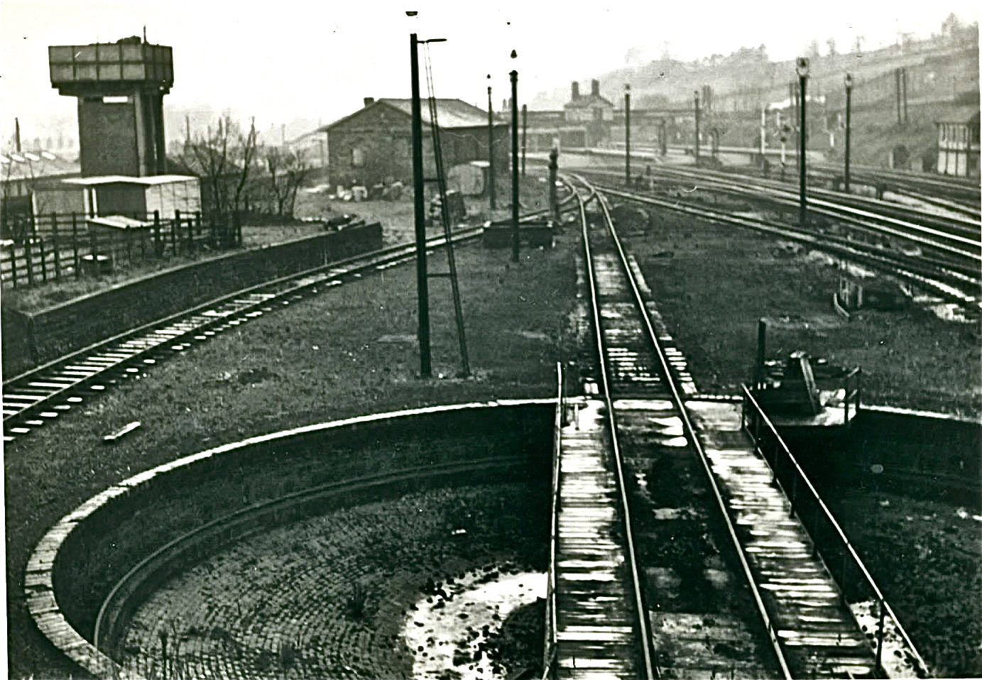 now replaced by houses